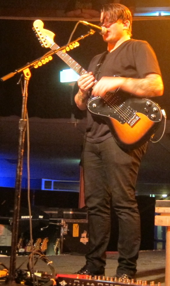 Josh Newton soundchecking for Fall Out Boy in Sydney, 2015